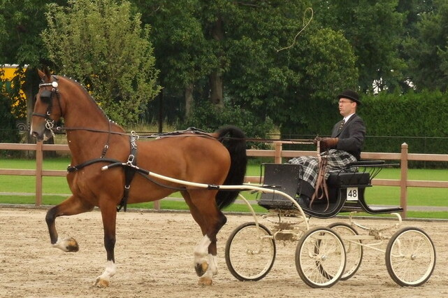 Wonderful horses and incredible people. Holland is a beautiful land and full of good surprises.